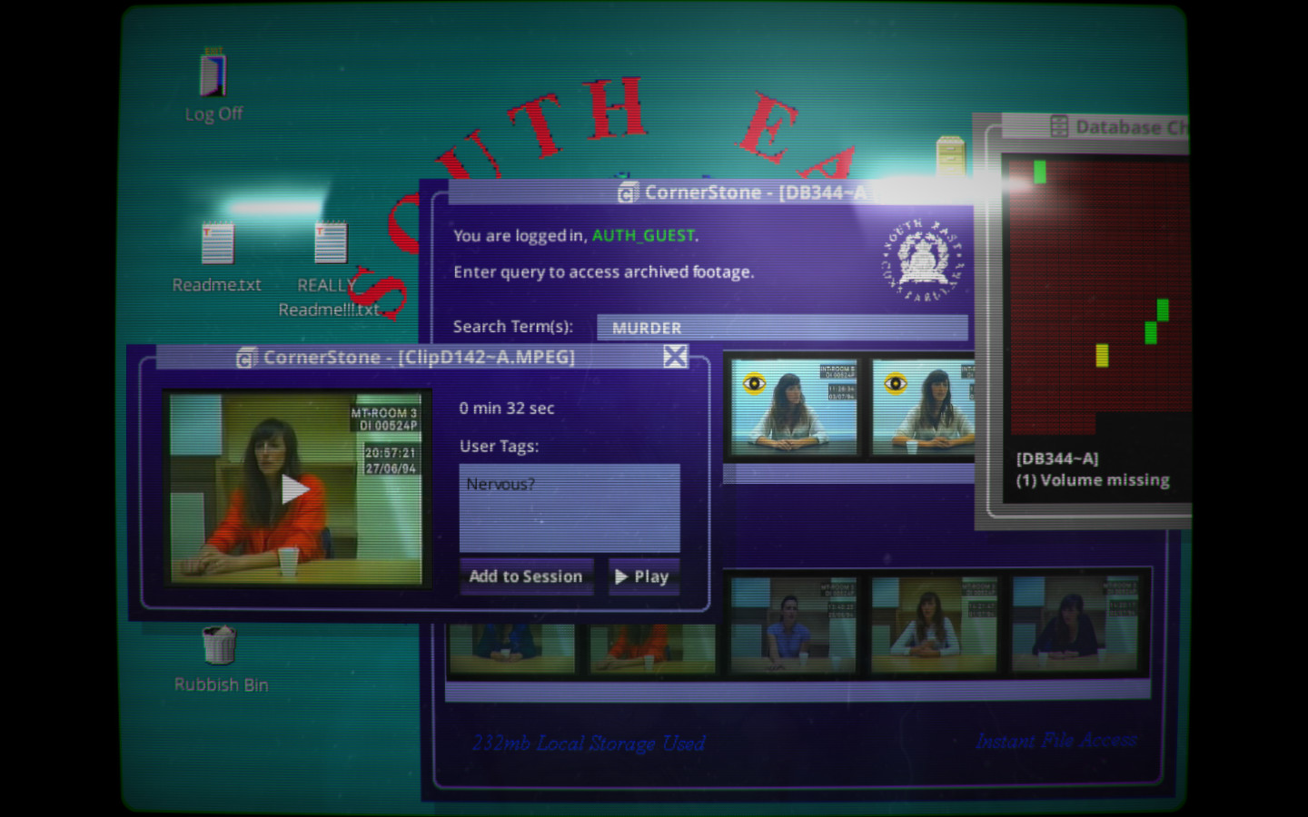 Screenshot from Her Story press kit